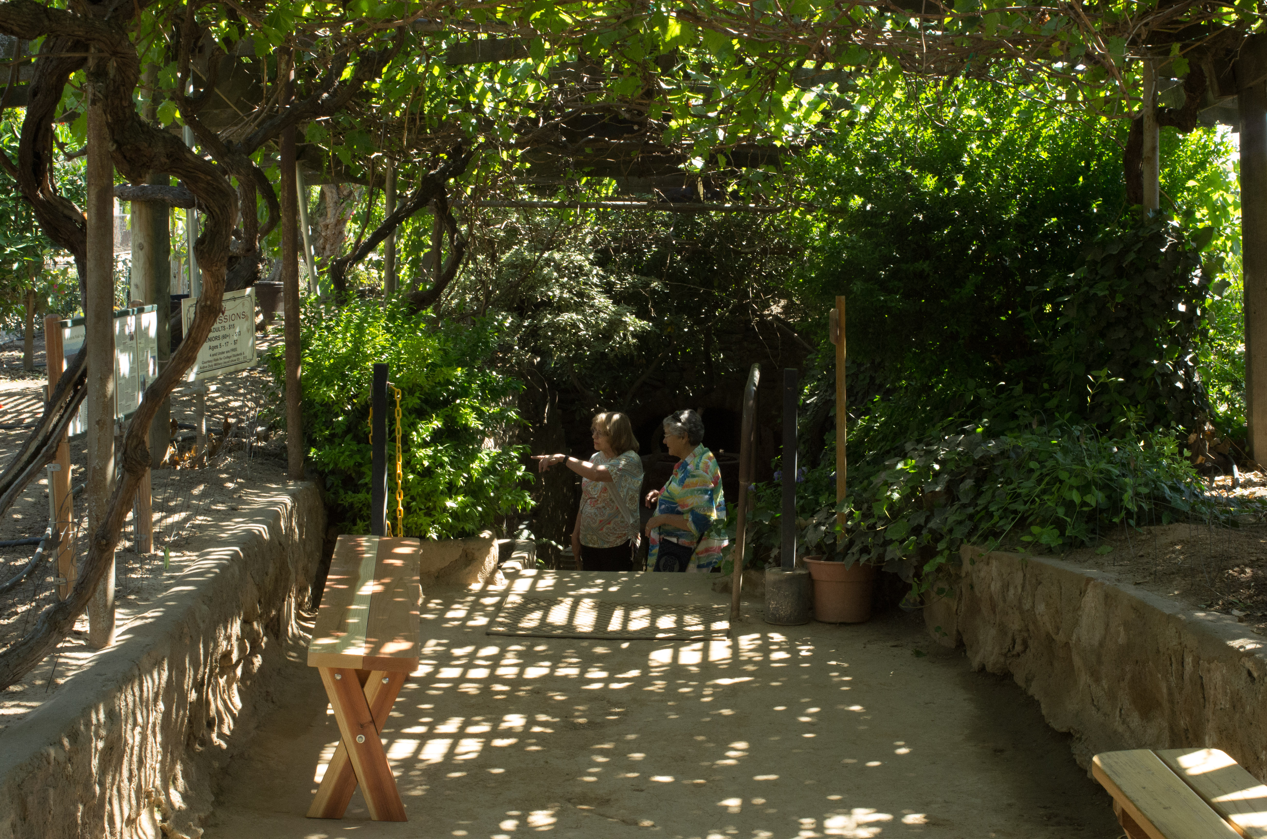 Open every weekend in Spring - tours start on the hour. Weekday toursv added in the summer. Don't miss it!!